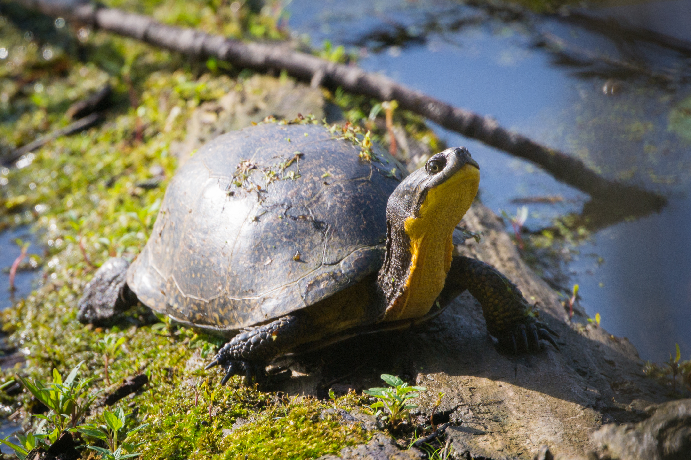 Magee Marsh Wildlife Area, Oak Harbor, Ohio